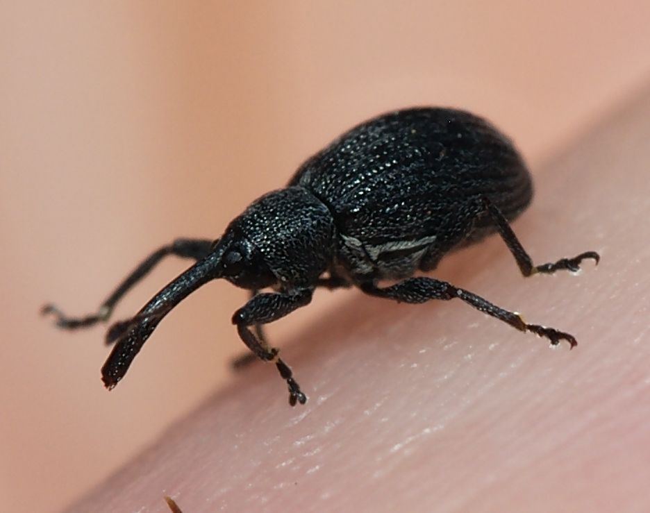 Anthonomus rubi from Cologne, Germany.